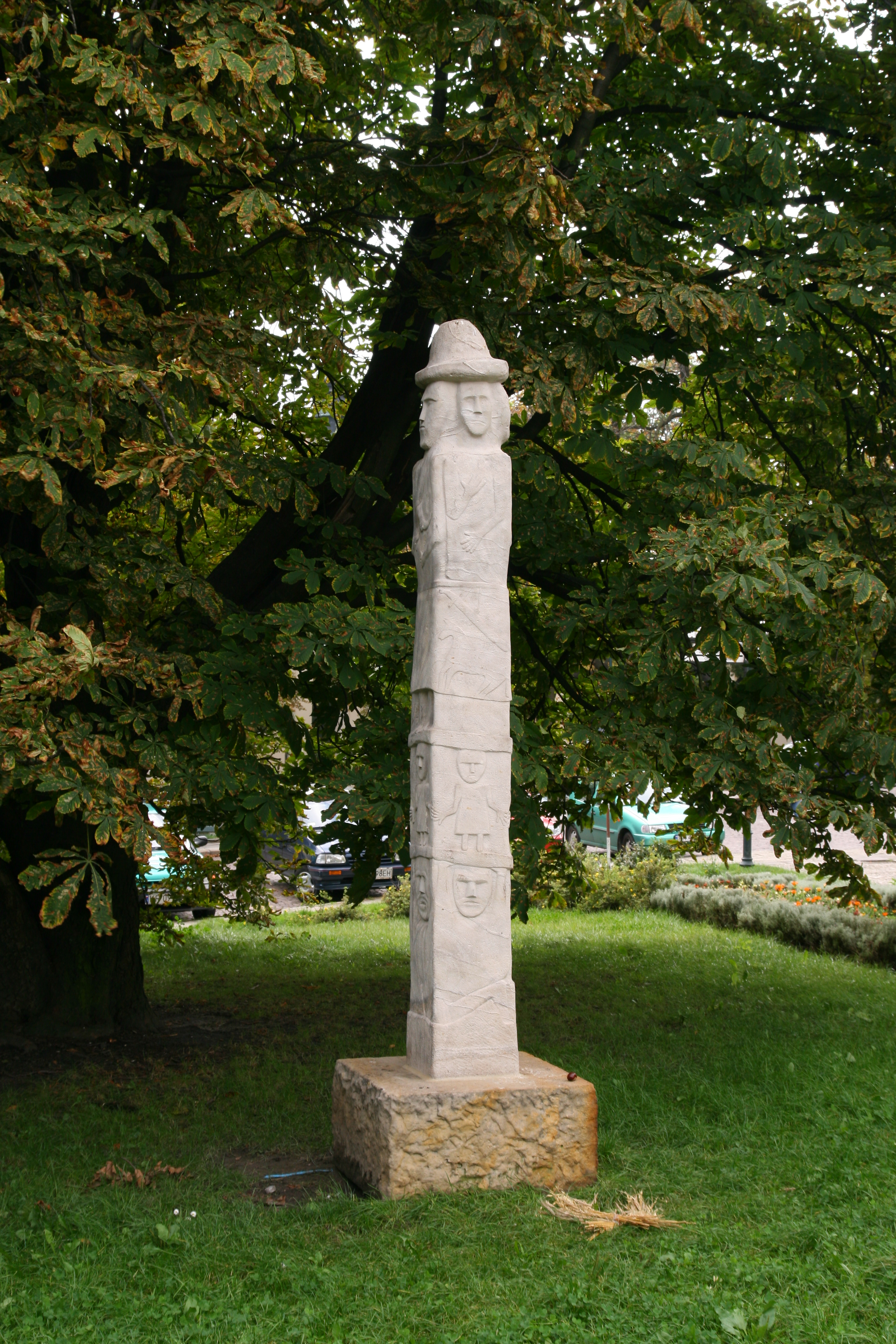 Contemporary monument of Svantevit near Wawel Hill in Kraków (Poland).